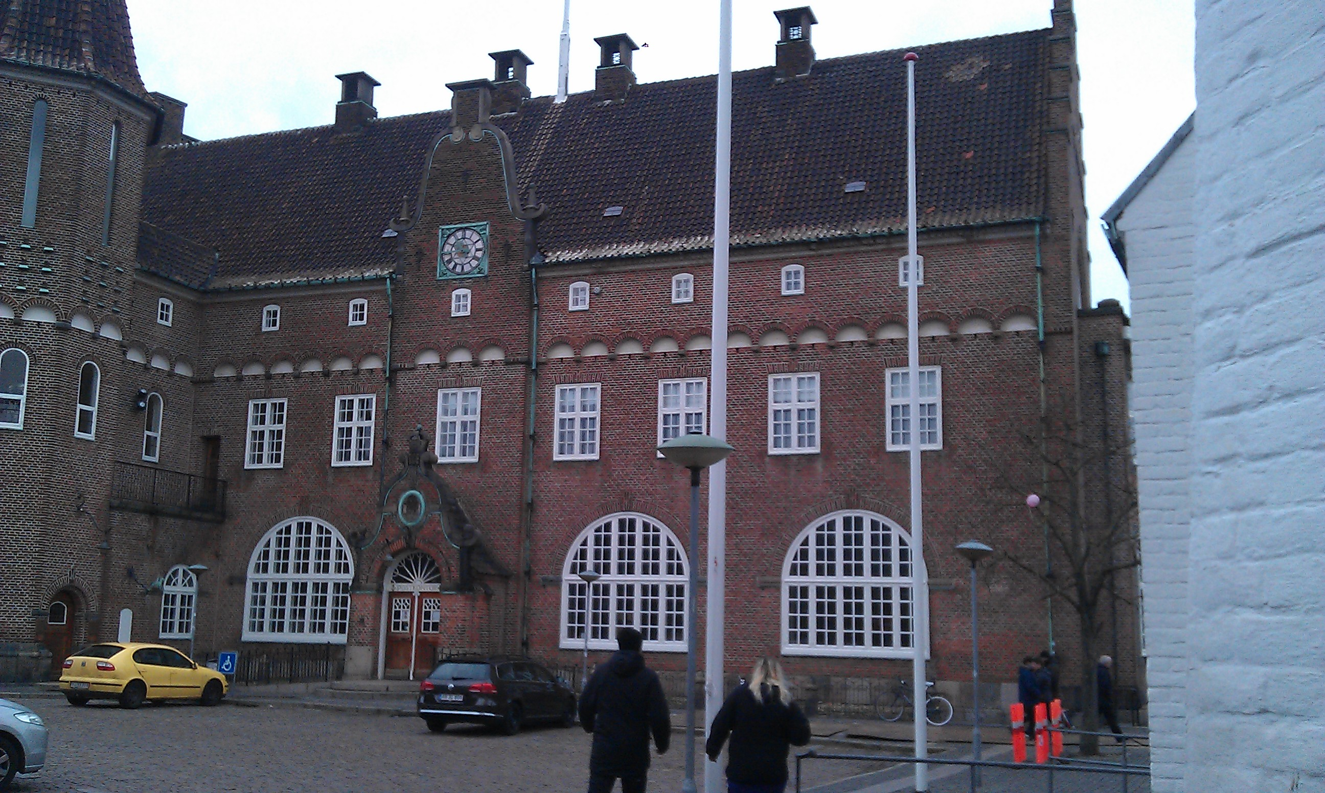 main building - seen from Budolfi